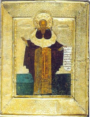 Saint Zosima Solovetsky